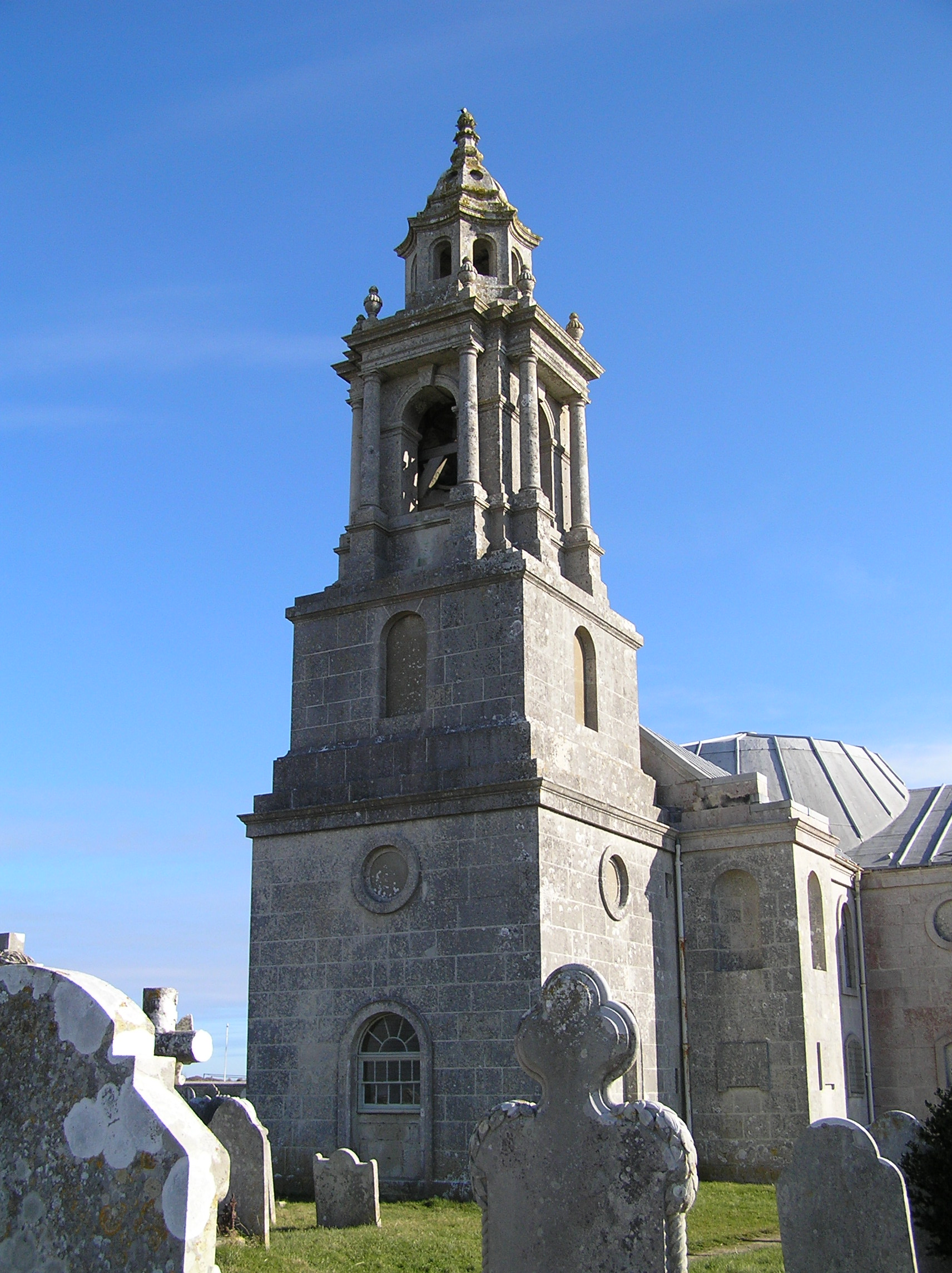 Picture of St. George's Church, Portland.